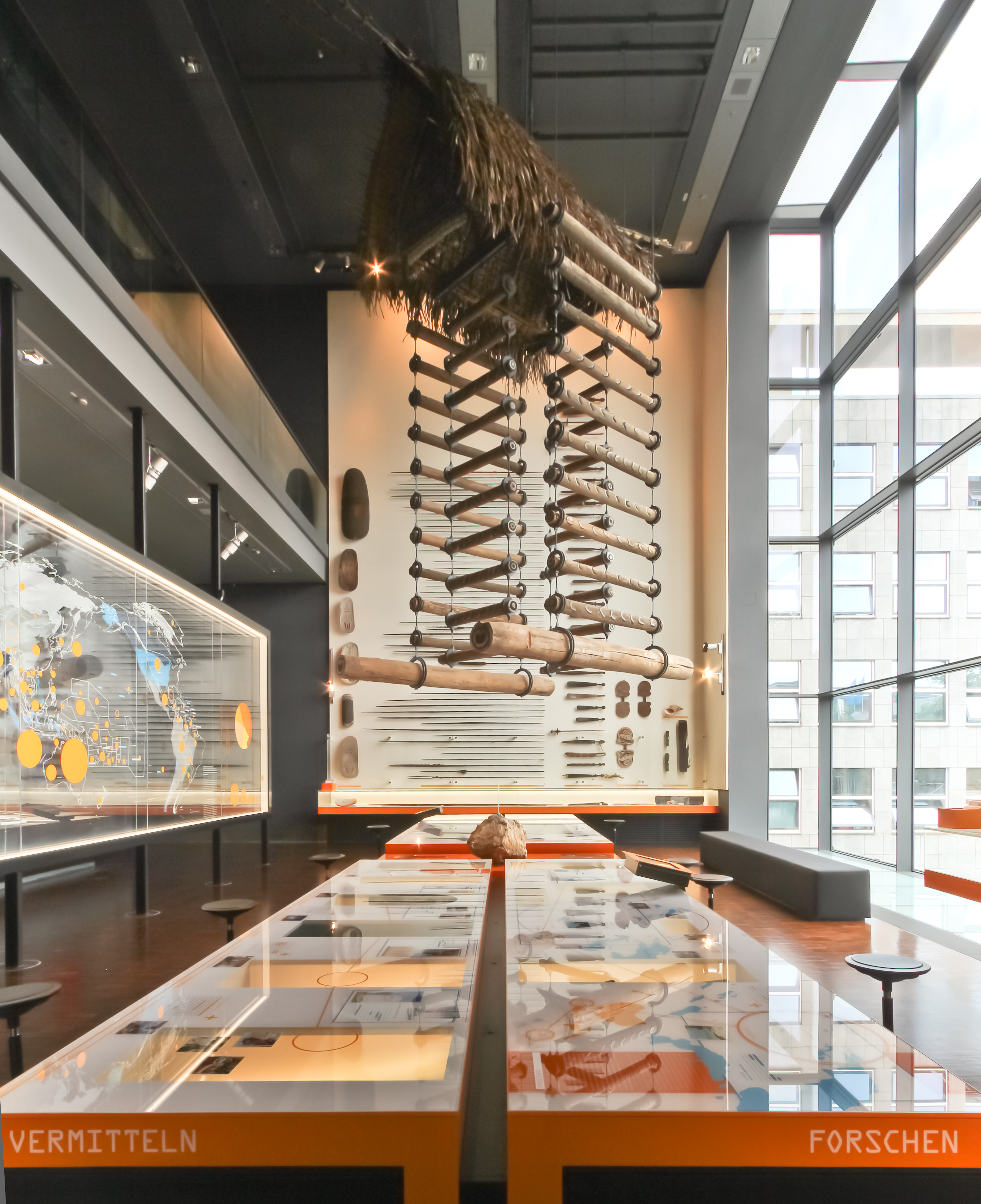 Rautenstrauch-Joest Museum Native nameRautenstrauch-Joest-MuseumLocationCäcilienstraße 29-3350667 Cologne, North Rhine-Westphalia GermanyCoordinates50° 56′ 04.7″ N, 6° 57′ 01.91″ E Established1901Web control : Q2133582 VIAF: 130110994 ISNI: 0000 0001 0660 2967 LCCN: n50047757 GND: 2018801-8 SUDOC: 029463408 WorldCat institution QS:P195,Q2133582